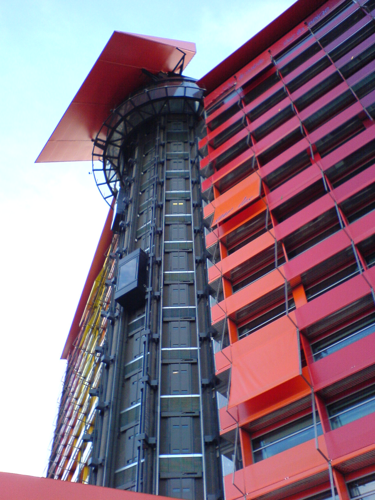 Elevators at the Puerta América Hotel (Madrid, Spain, built: 2003–2005). Façade designed by Jean Nouvel (born 1945).